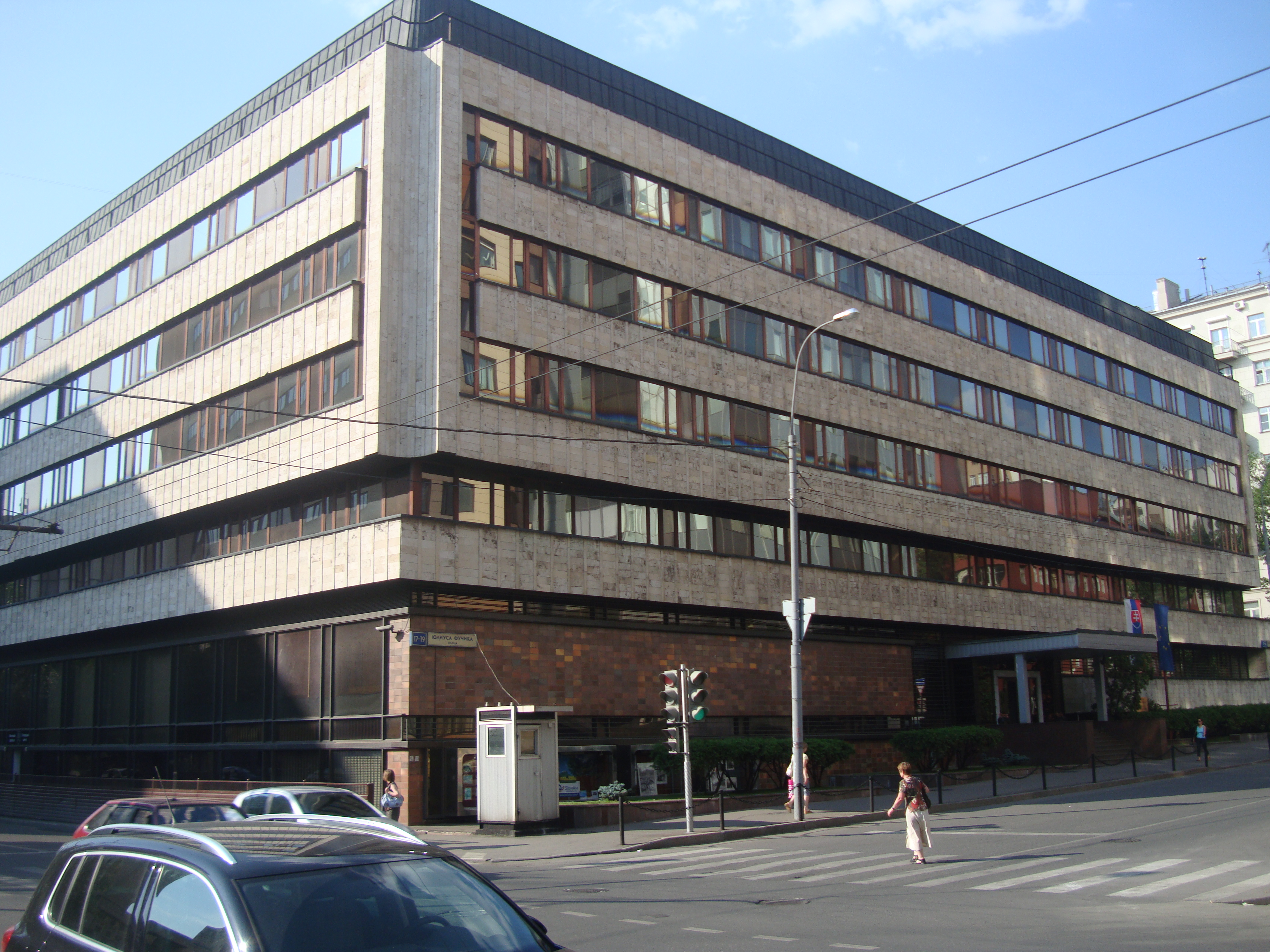 17/19 Julius Fučík street, Moscow, Russia. Embassy of Slovakia.